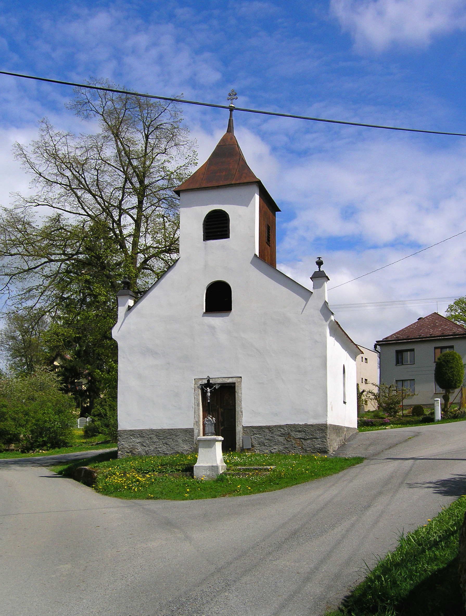 Small church in Rodinov village, Czech Republic